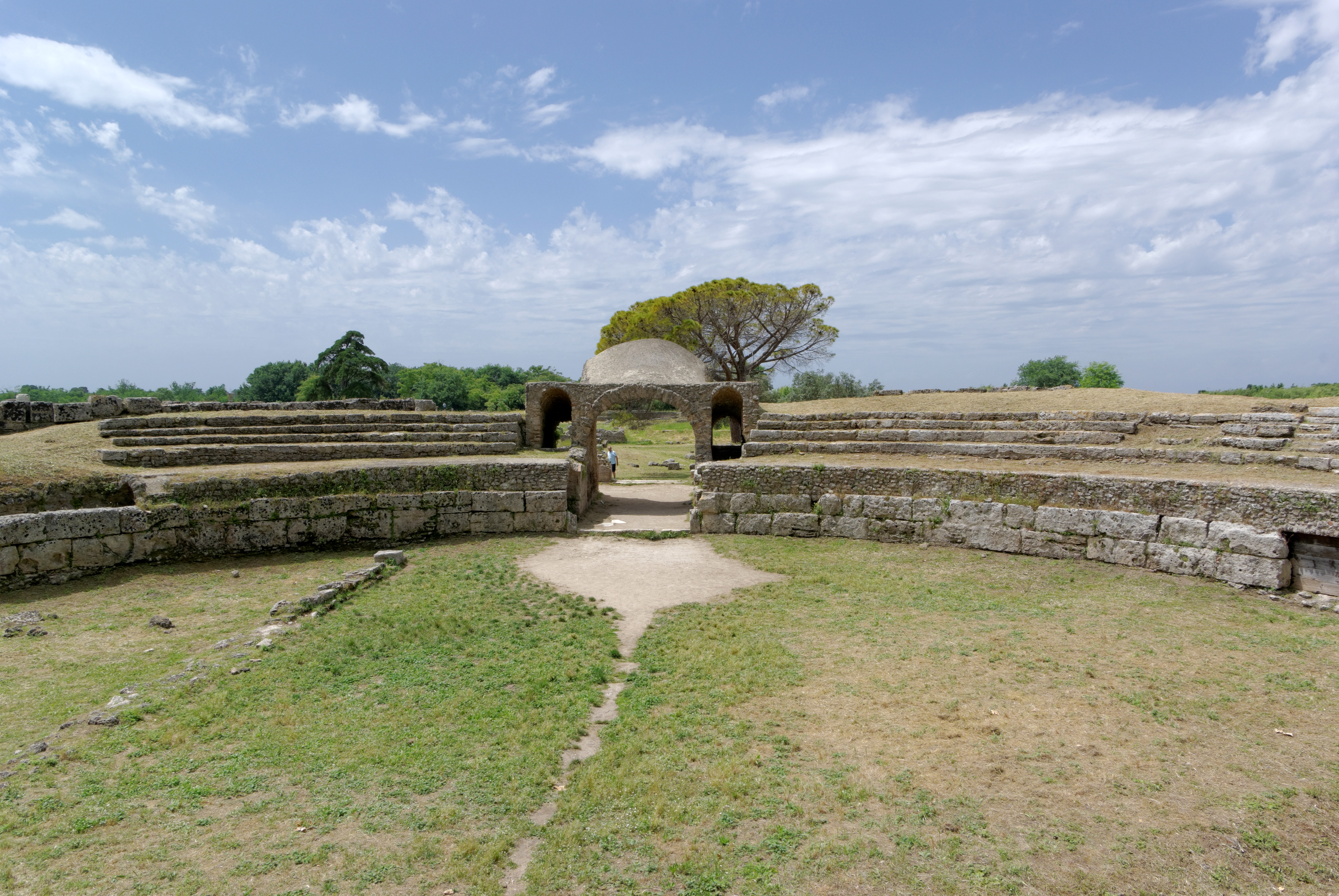 Italy, Paestum, Amphitheatre